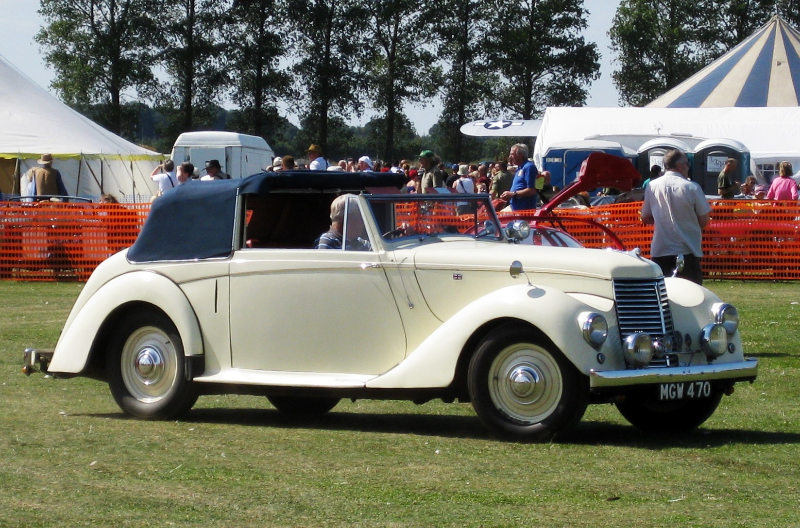 Armstrong-Siddeley Hurricane 18 first registered August 1951